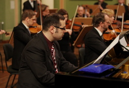 this image from Pooyan azadeh 's official web site